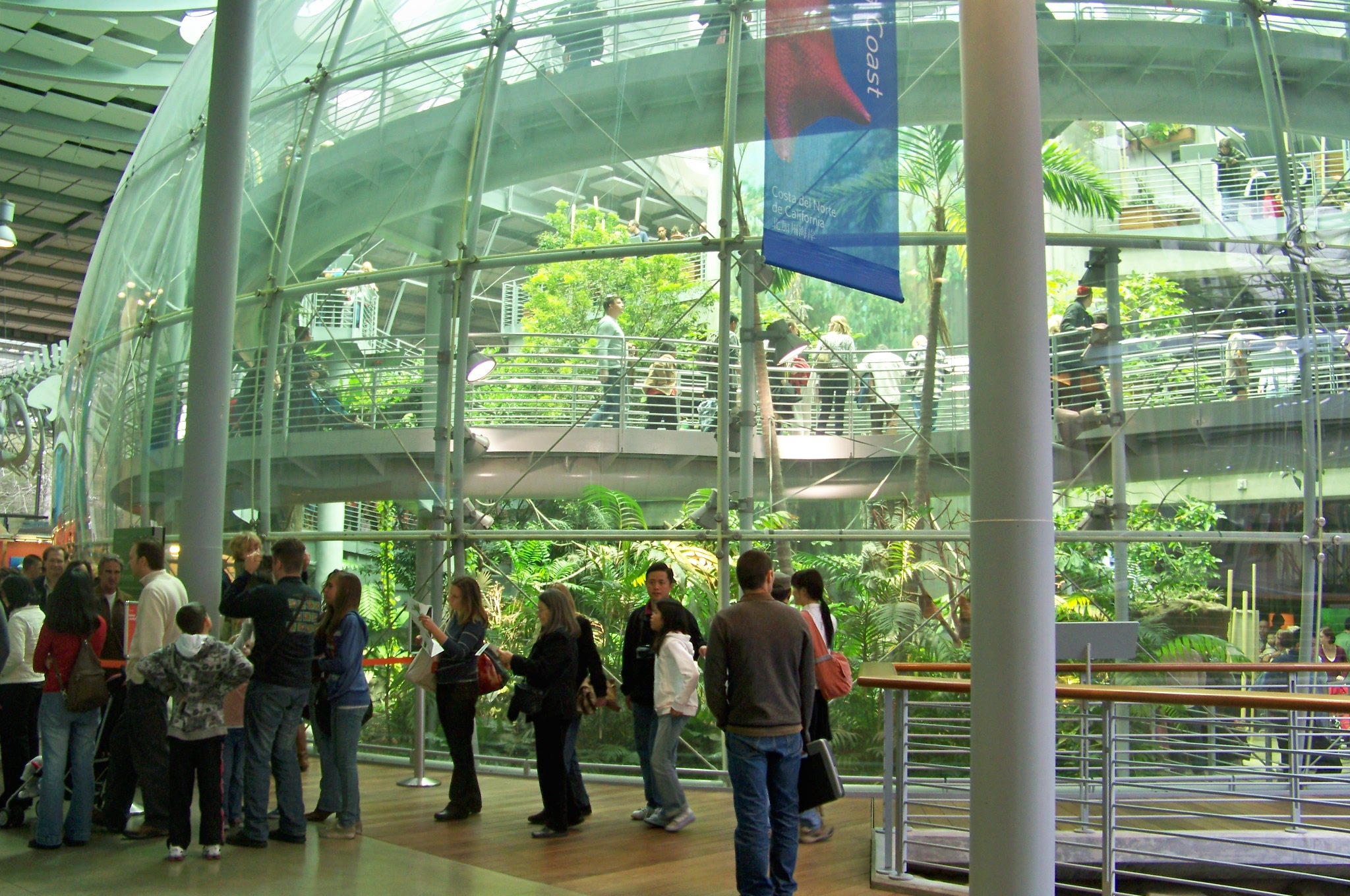 A view of the Biodome at the California Academy of Science in San Francisco, California